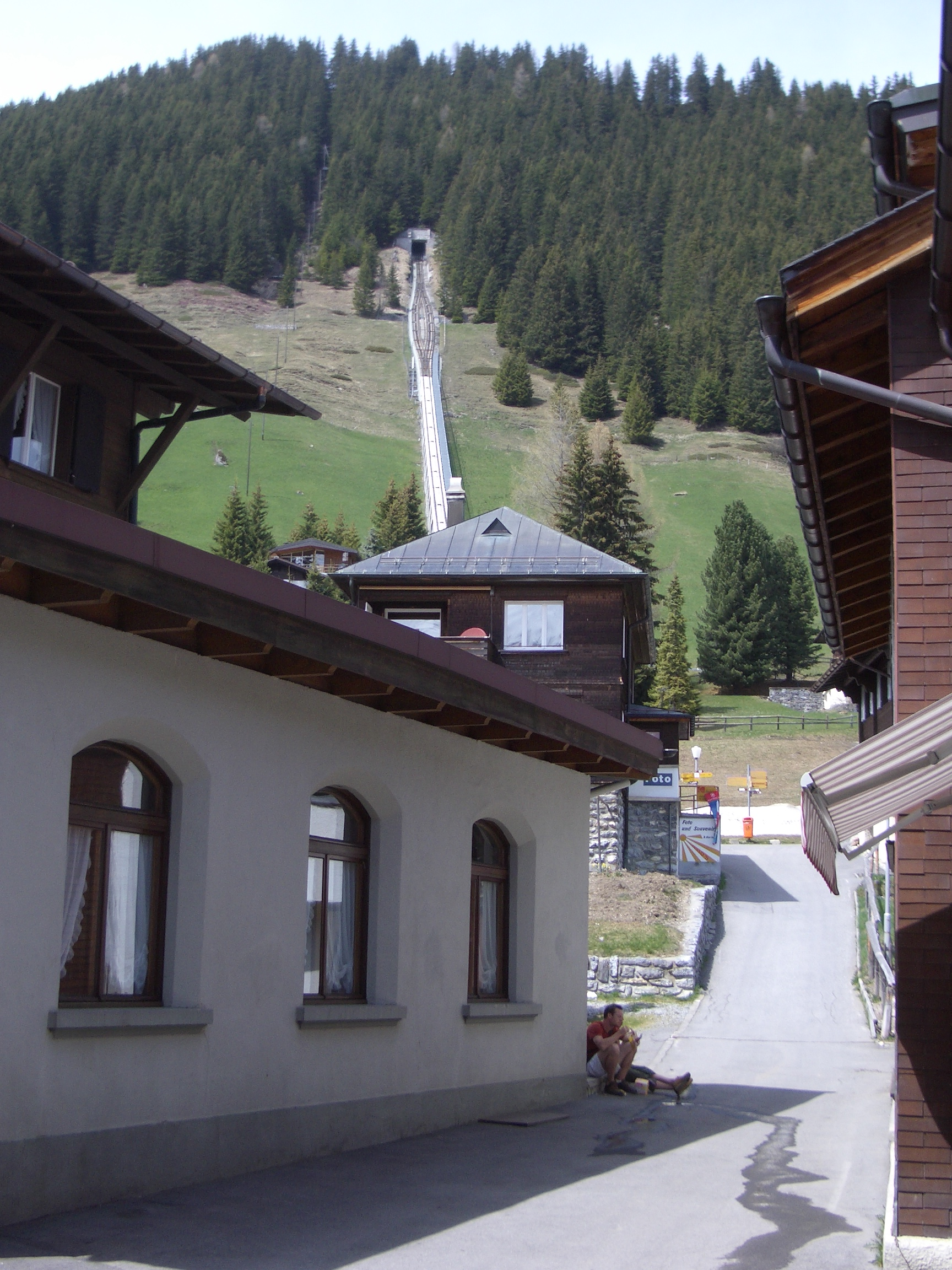 Allmendhubelbahn from Murren